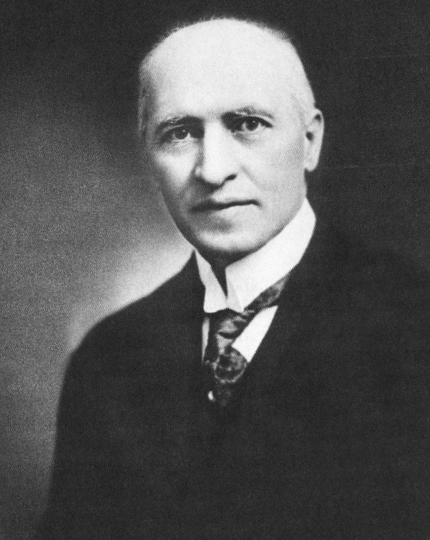 Arthur Sifton, Premier of Alberta, Canada from 1910-1917